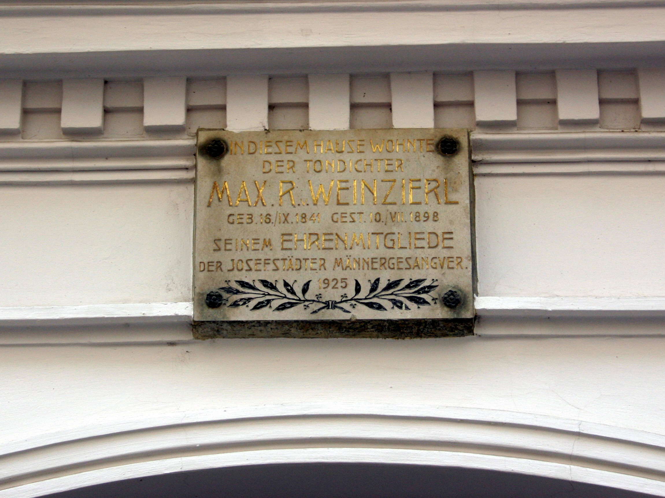 Skodagasse, Vienna